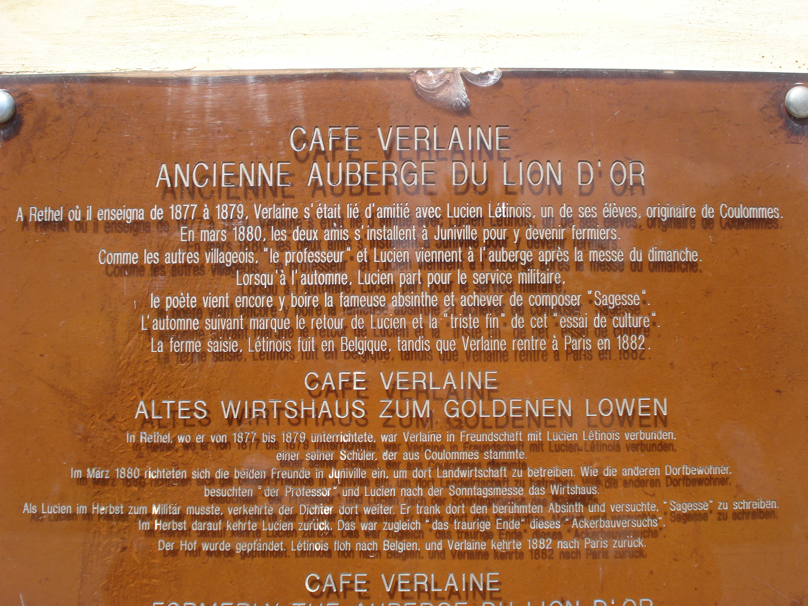 Plaque Musée Verlaine, Juniville (Ardennes, Fr).